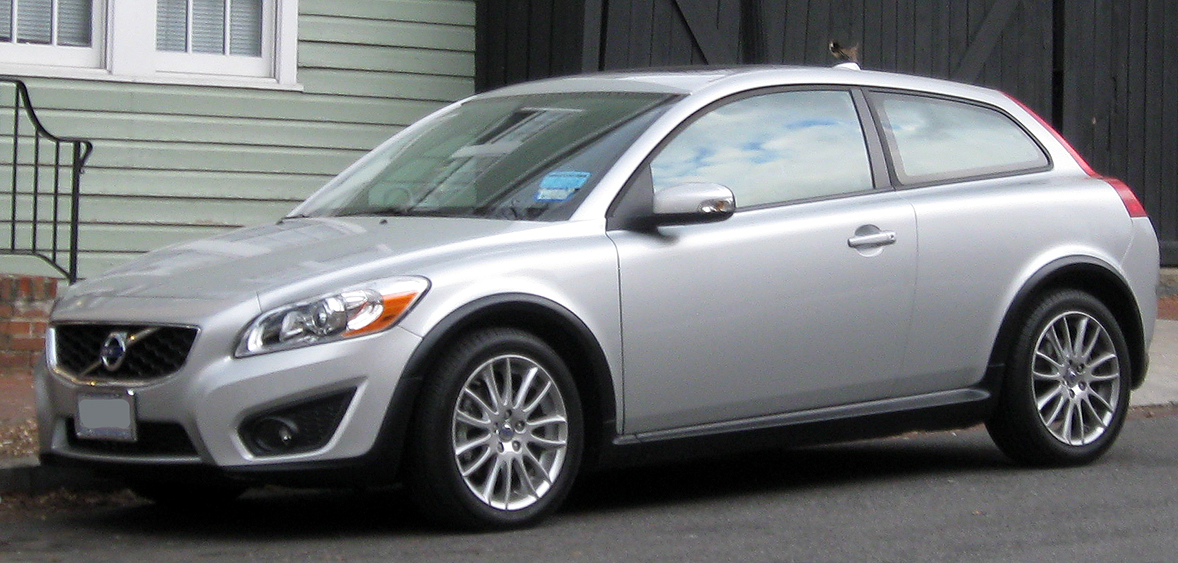 2011-2012 Volvo C30 photographed in Washington, D.C., USA.